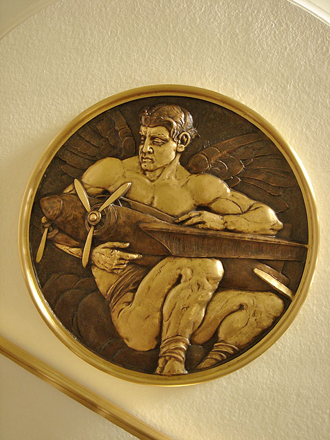 Art Deco relief at the rotunda staircase, in the Burbank City Hall, Southern California. Created by artist Hugo Ballin in 1943, with a locally built Lockheed Hudson aircraft. A combination of Classical and Renaissance with Art Deco styles, and a 20th century subject, the airplane.